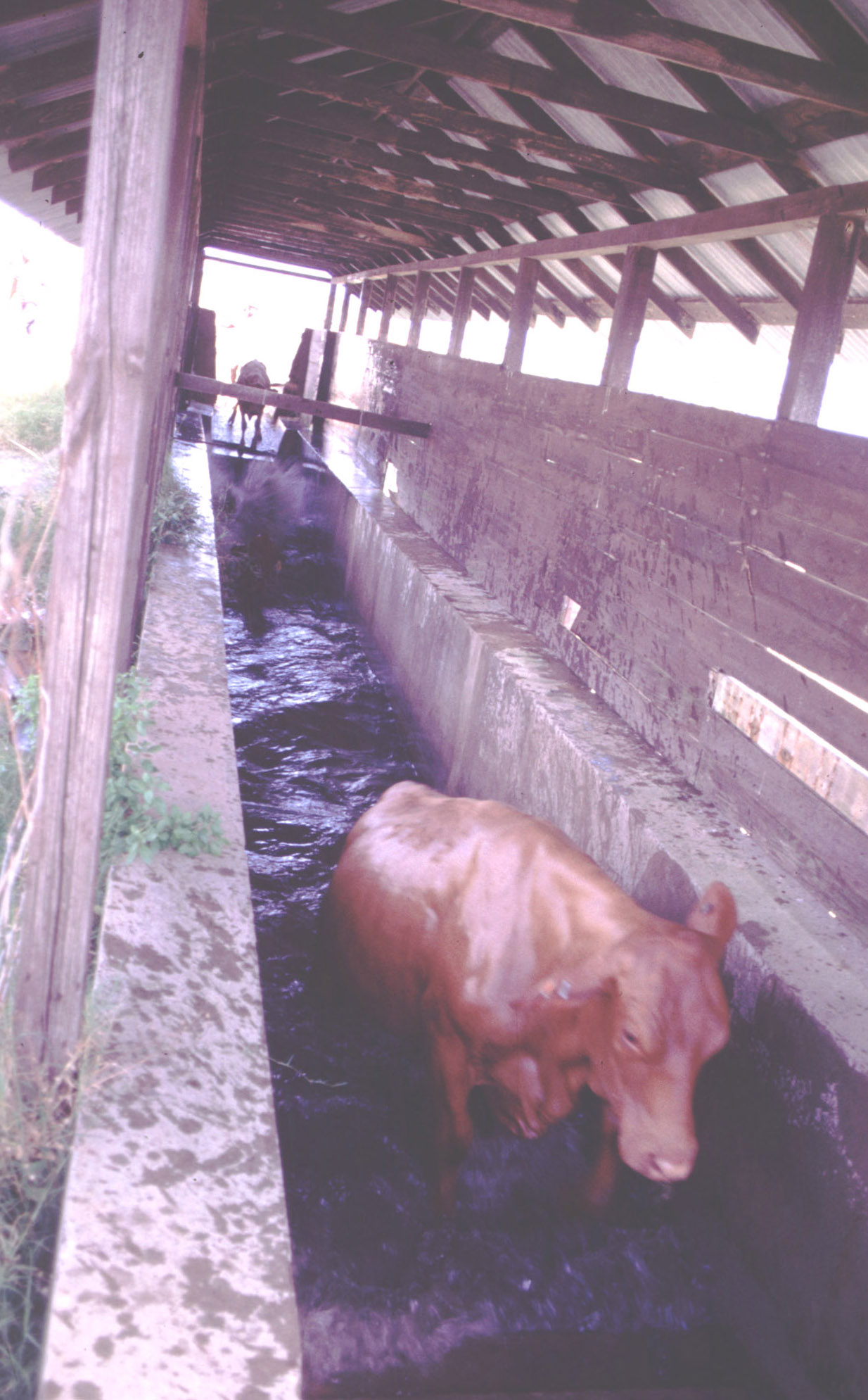 A dip-bath or tank for treating cattle with acaricide to kill ticks. This example from St Kitts & Nevis, to control Amblyomma variegatum.